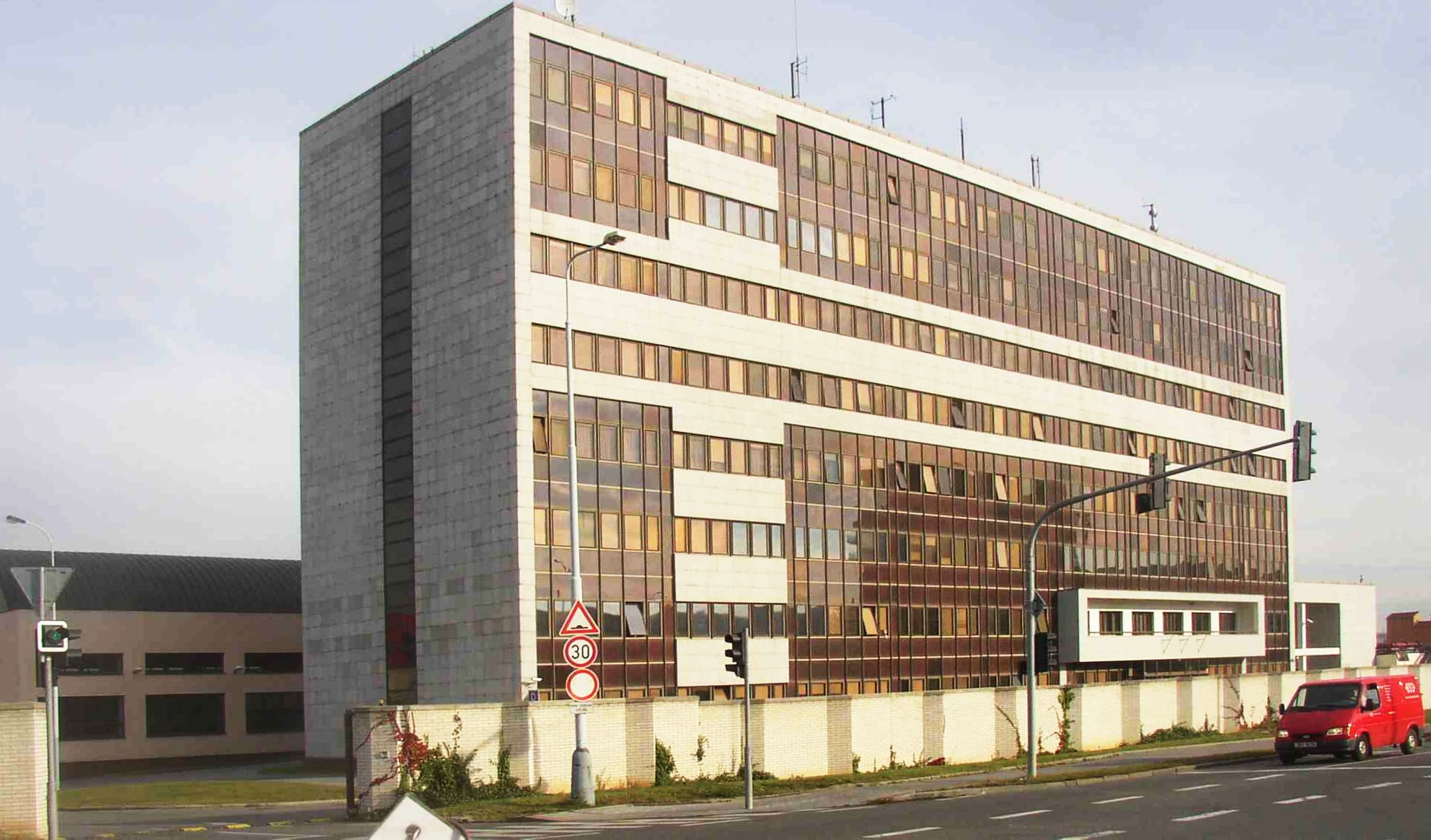 Building of BIS (Czech domestic intelligence agency), Nárožní Street, Prague-Stodůlky.